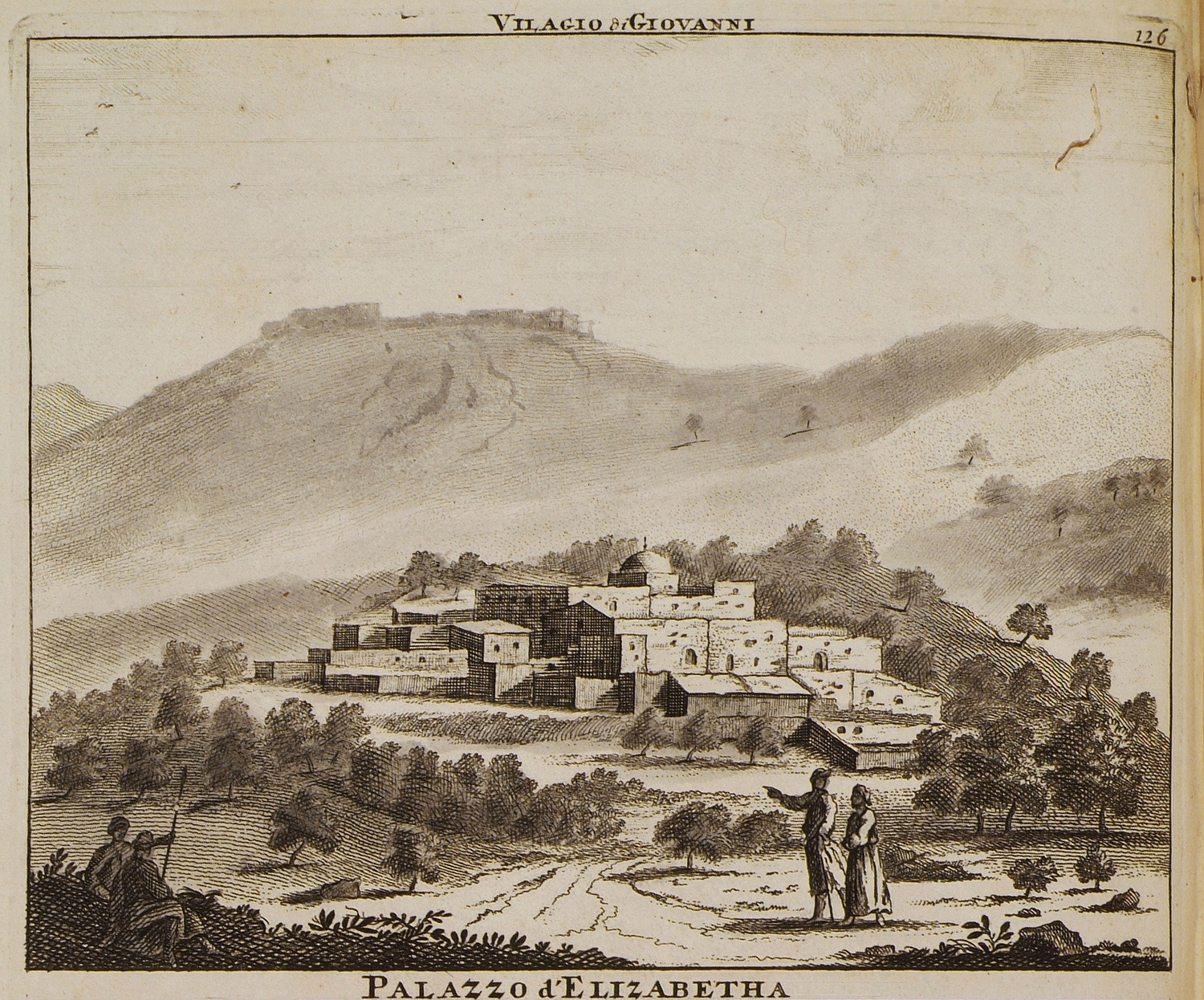 Cornelis deBruyn. Voyage au Levant, c’est-à-dire, dans les principaux endroits de l’Asie Mineure, dans les isles de Chio, Rhodes, et Chypre etc., Paris, Guillaume Cavelier, 1714.